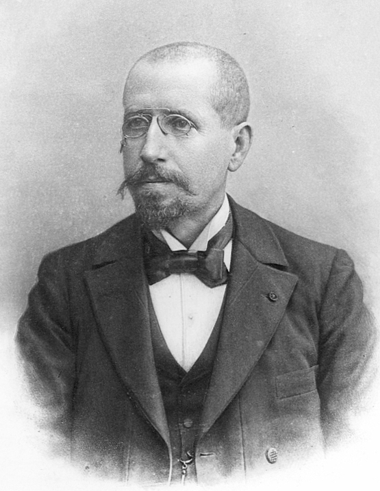 Picture of Jean-Gaston Darboux.